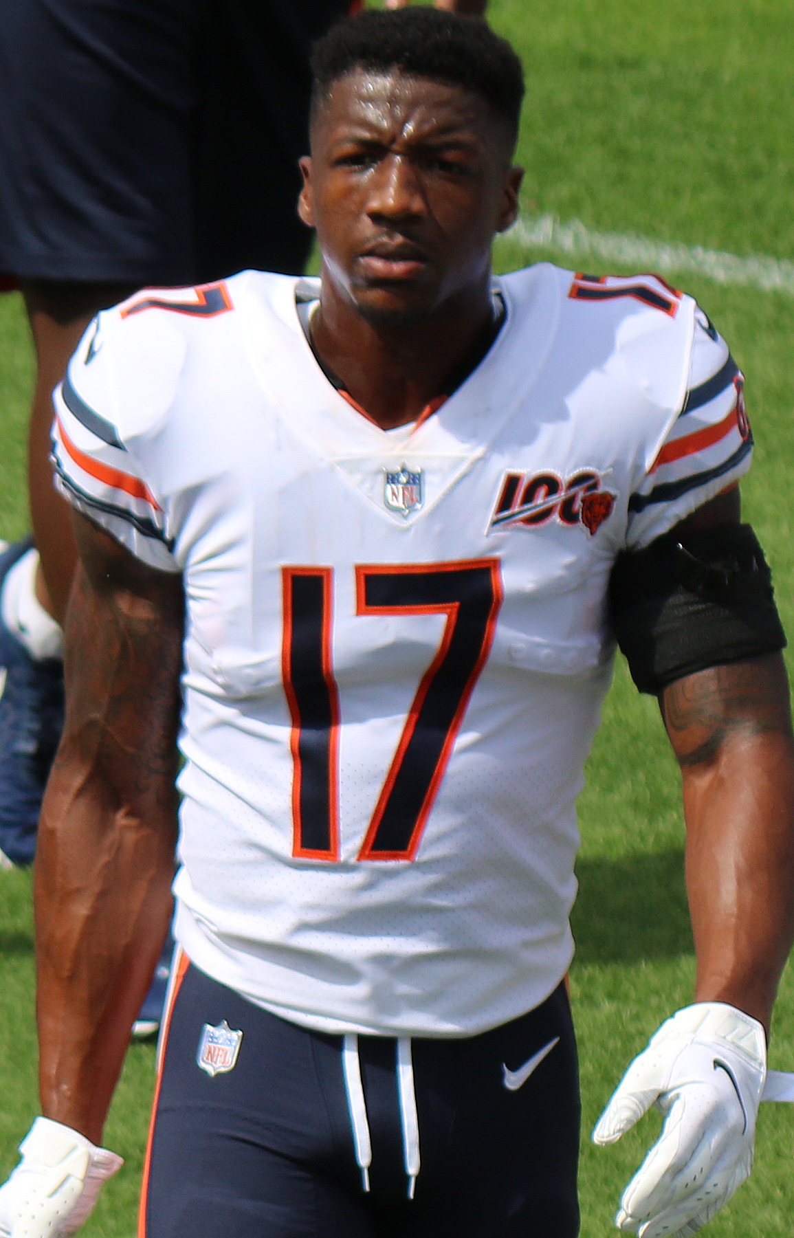 Anthony Miller, a National Football League player.